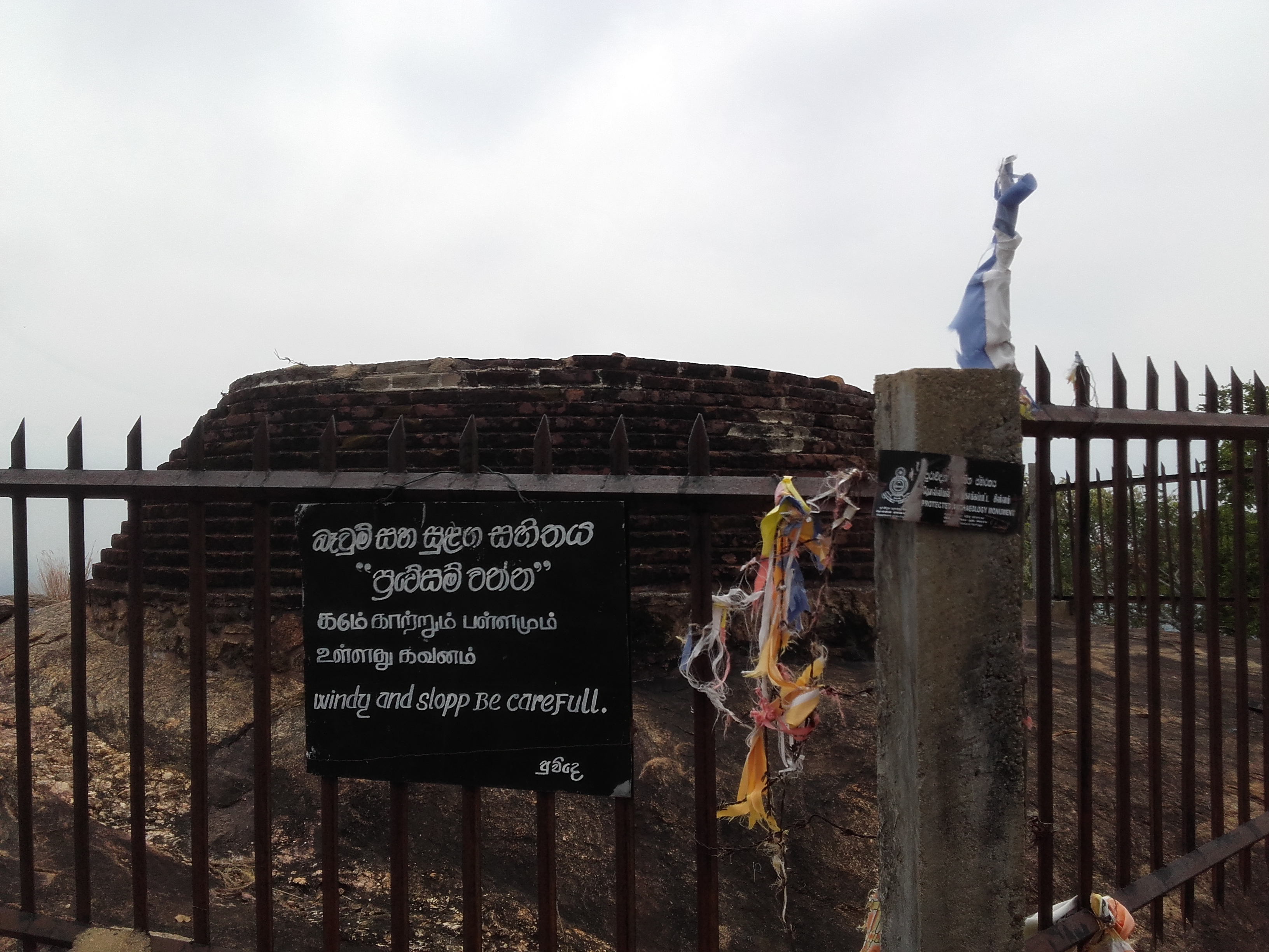 The Stupa at Kuragala Ancient Buddhist Monastery, Sri Lanka